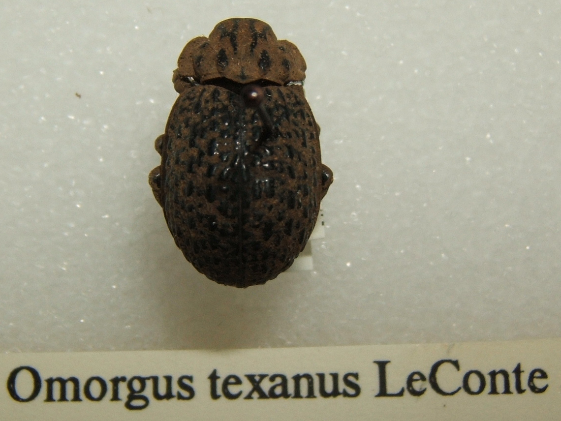 Omorgus texanus adult taken by Shawn Hanrahan at the Texas A&M University Insect Collection in College Station, Texas.